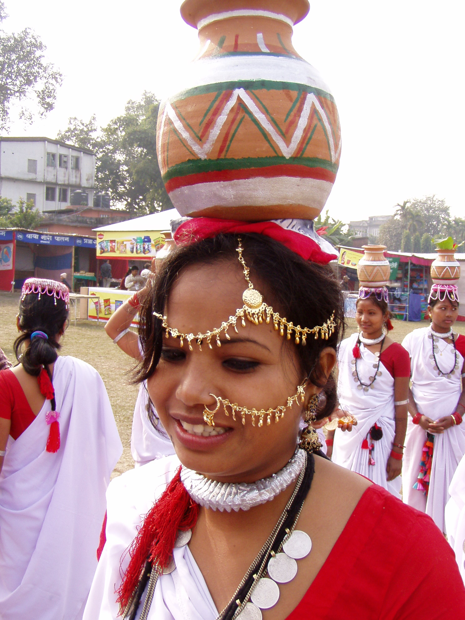 Female dancer in Nepal. Like dancers in the background, she is wearing a white sari with red blouse. She carries a decorated pot on her head, and is adorned with golden chains hanging from her head and from ear to nose.